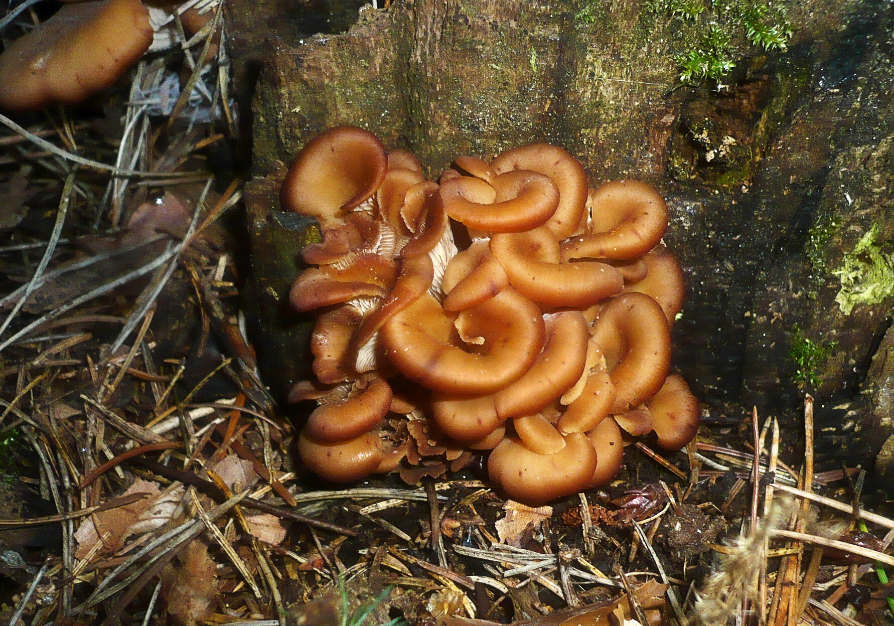 Lentinellus cochleatus (Pers.) P. Karst. Image location: Wotansfelsen, Felling, Bezirk Krems-Land, Lower Austria, Austria Recognized by sight: aniseed smell, on hardwood stump For more information about this, see the observation page at Mushroom Observer.